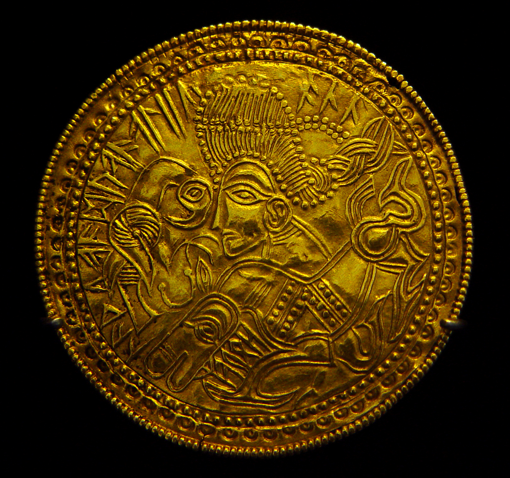 The Funen bracteate (DR BR42 = DR IK58), found in Funen, Denmark. The runic inscription is read as: houaz laþu aaduaaaliia a-- or alternatively houaz / laþu aa duaaalii(a) / al(u) According to the display at the National Museum of Denmark, houaz is interpreted as "The High One", a name of Odin.